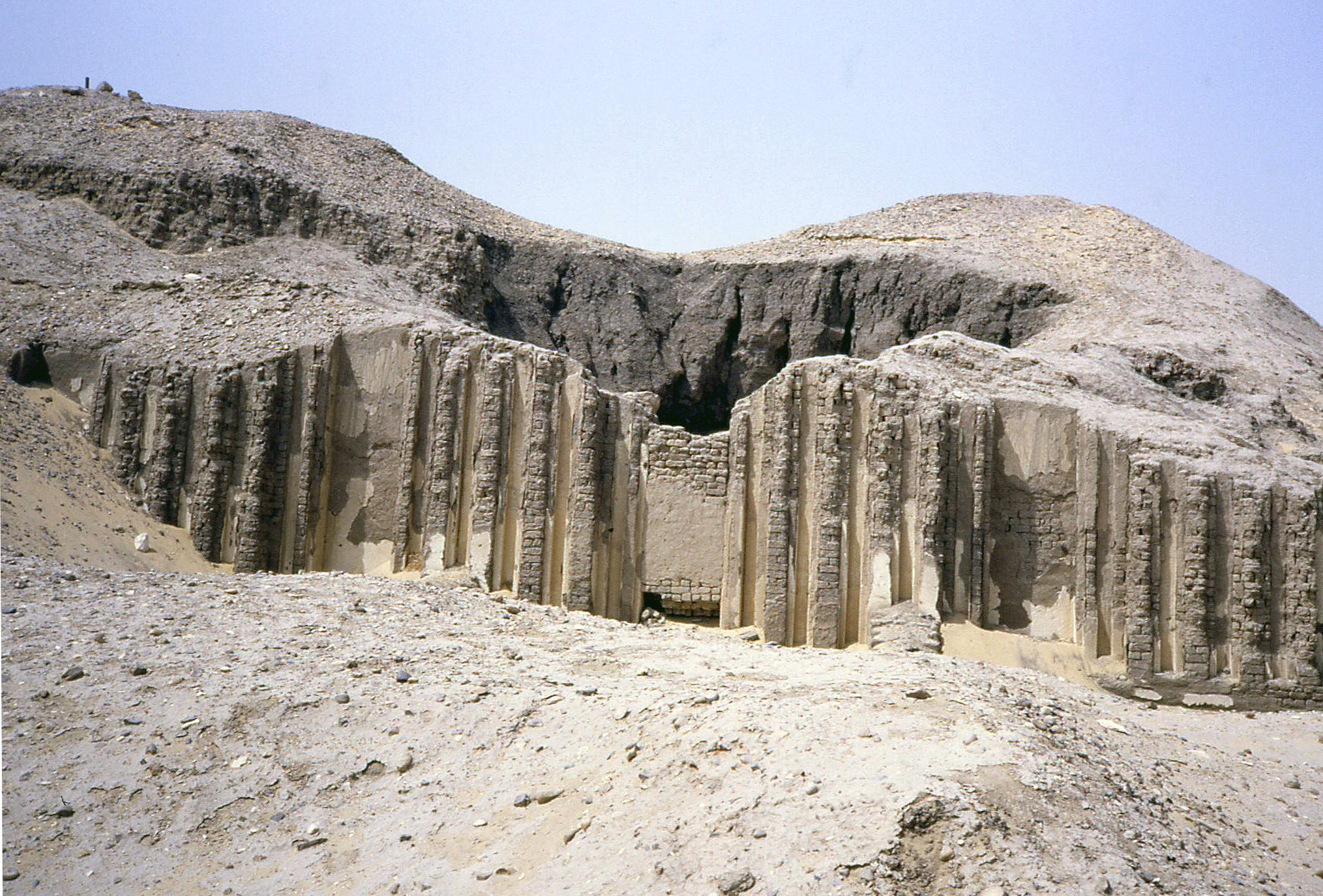 Mastaba of Nefermaat and Itet. Fourth Dynasty. Reign of Snefru, Meidum. Tomb M.16., Bric, and limestone brick walls coating, pieces in Cairo's Egyptian Museum, Louvre and other. Nefermaat was the eldest son of Snefru.